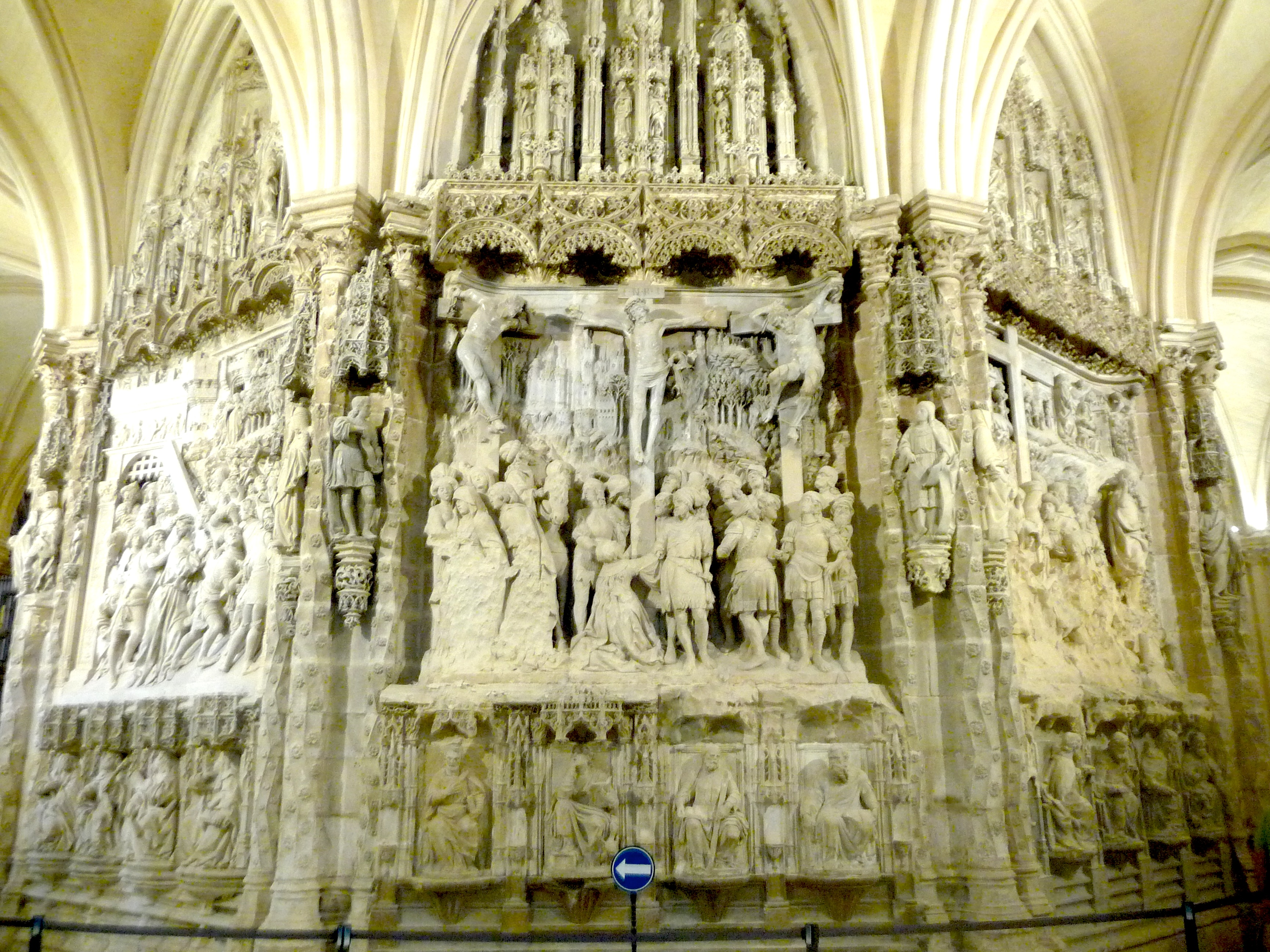 Burgos Cathedral.